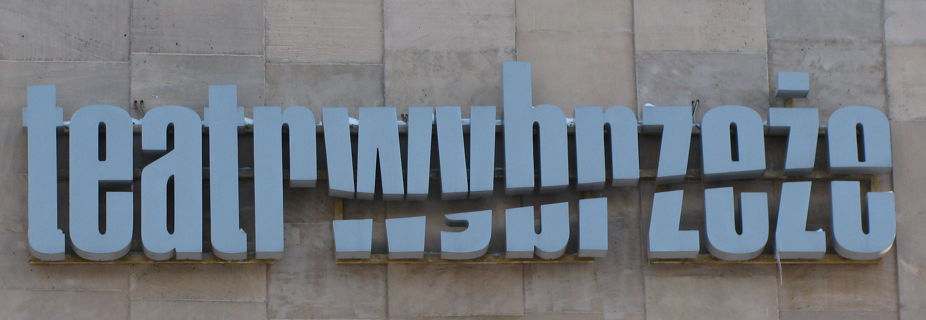 Wybrzeże Theatre in Gdańsk 2010 logo.